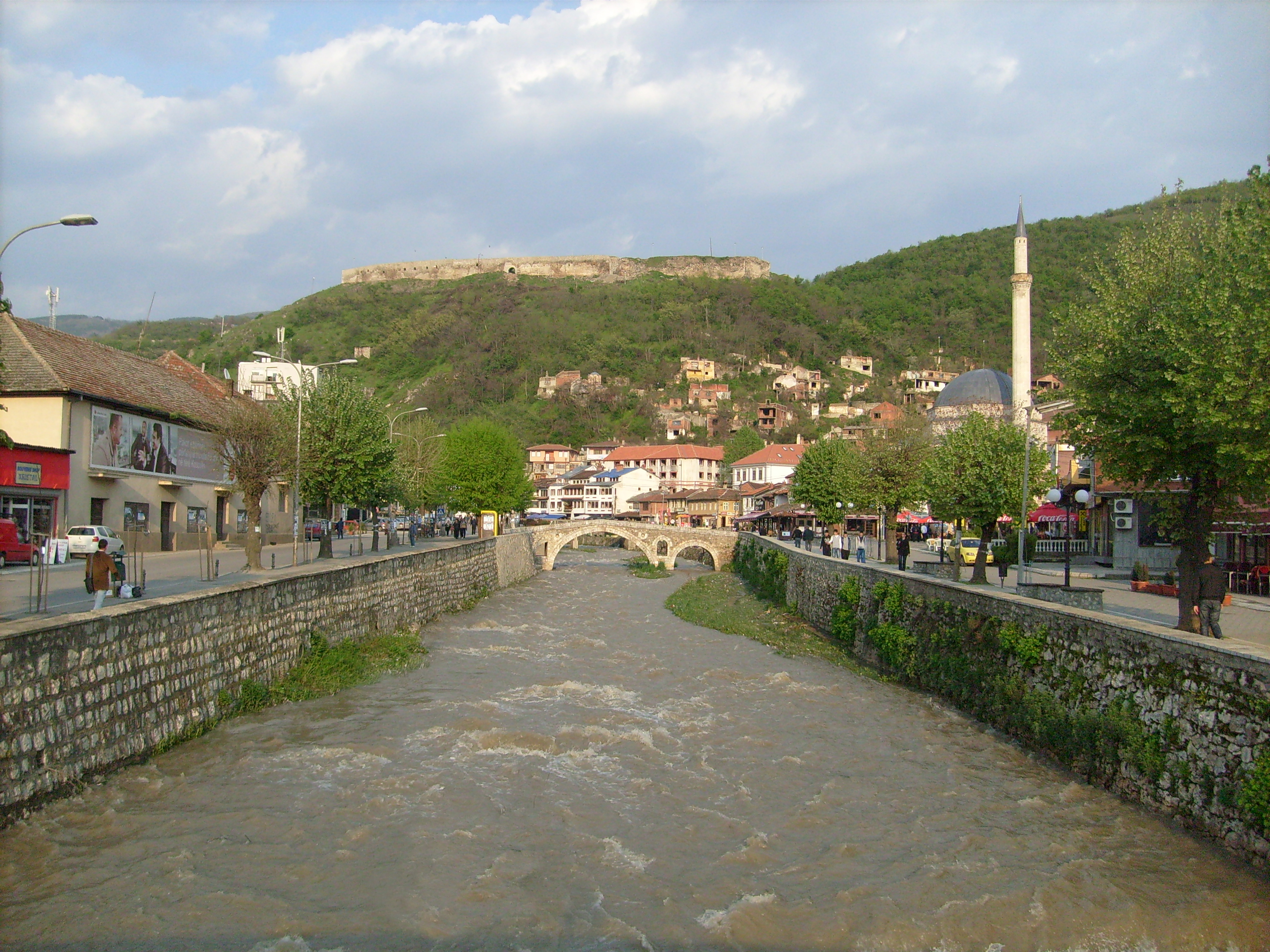 Prizrenska Bistrica / Akdere / Lumbardh: Flows into Prizren. It is a tributary of White Drim. (Prizren / Republic of Kosova)